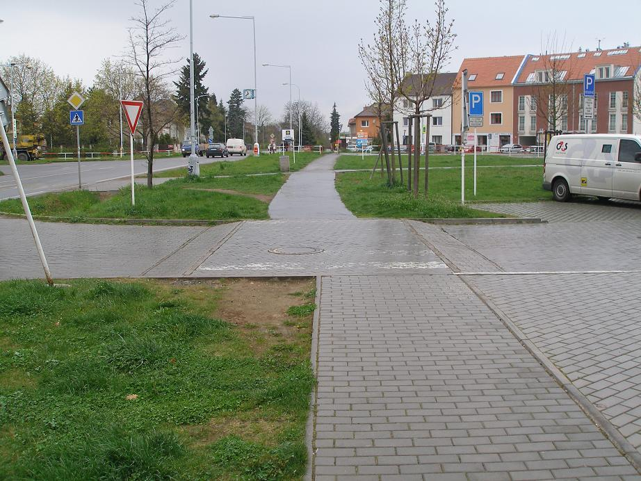 Cross treshold in Prague 6 - Suchdol.